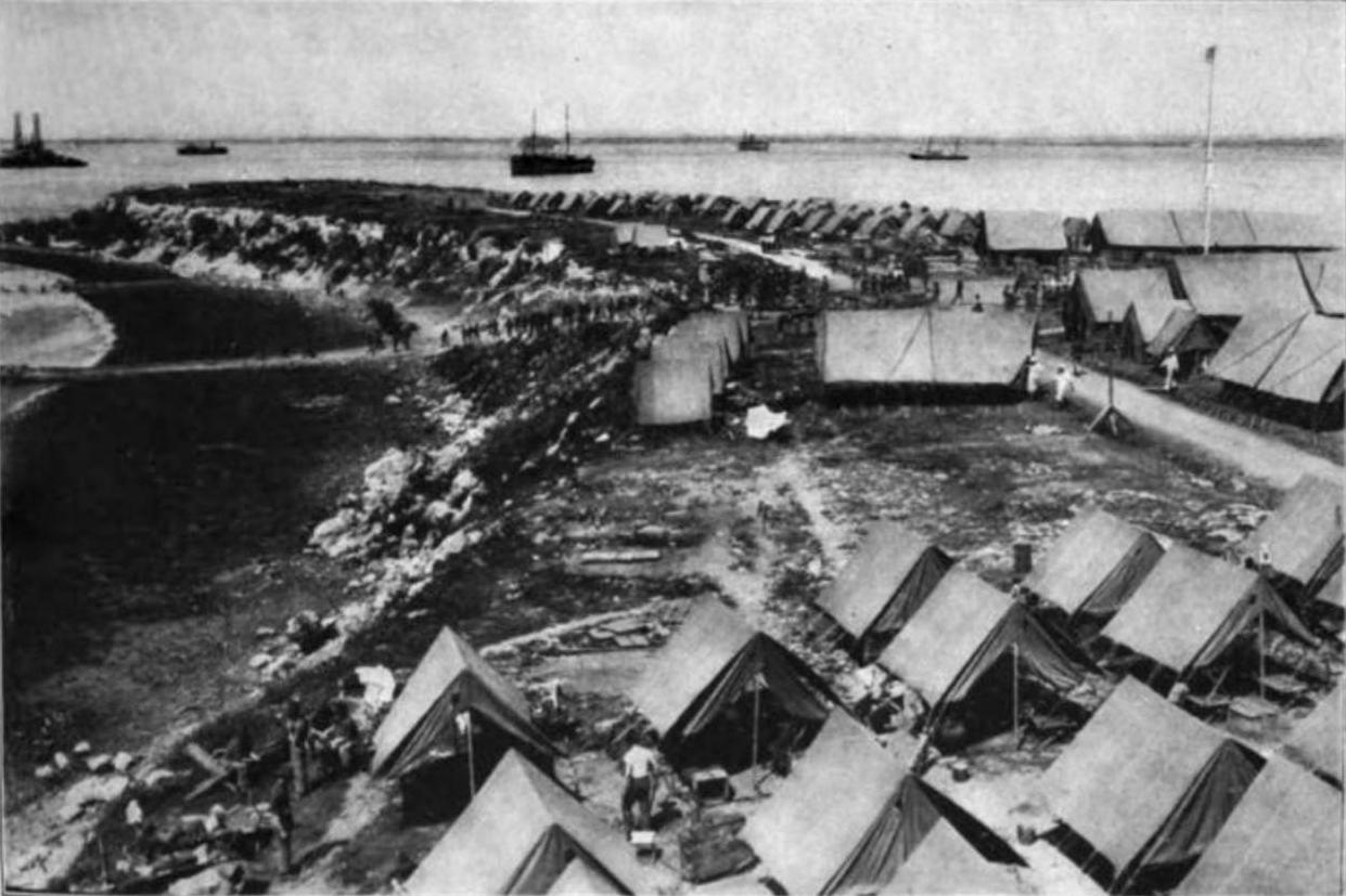 1916 photograph of Guantanamo Bay Naval Base. Originally accompanied by this image. Caption: "The Naval Base at Guantánamo ‧ By a treaty with Cuba that was signed in 1903, the United States secured a naval base with a fine land-locked harbor at Guantánamo, on the southern end of the island forty miles east of Santiago, for which it pays, $2000 annually. Here throughout the winter months the Atlantic Fleet is concentrated, engaged in fleet manœuvres and target practice. This is the nearest naval base to the Panama Canal on the Atlantic side, but is not an ideal location as it is open to attack by land. Admiral Knight urges a main base at Culebra, with Guantánamo as a secondary base."